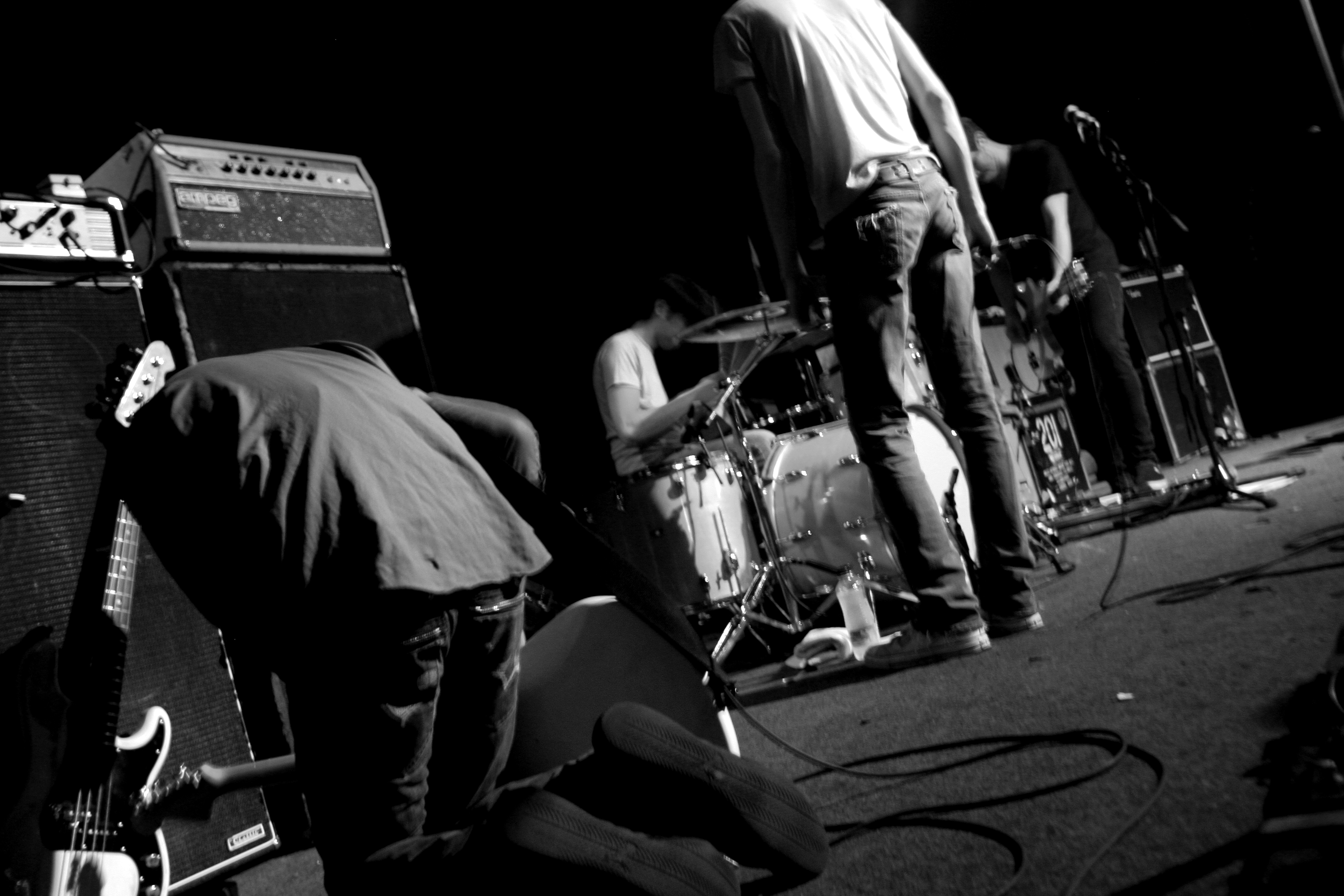 The Blood Brothers live in Germany January 2007